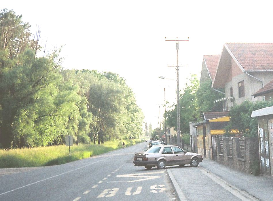 Street in Klisa / Slana Bara neighborhood in Novi Sad.